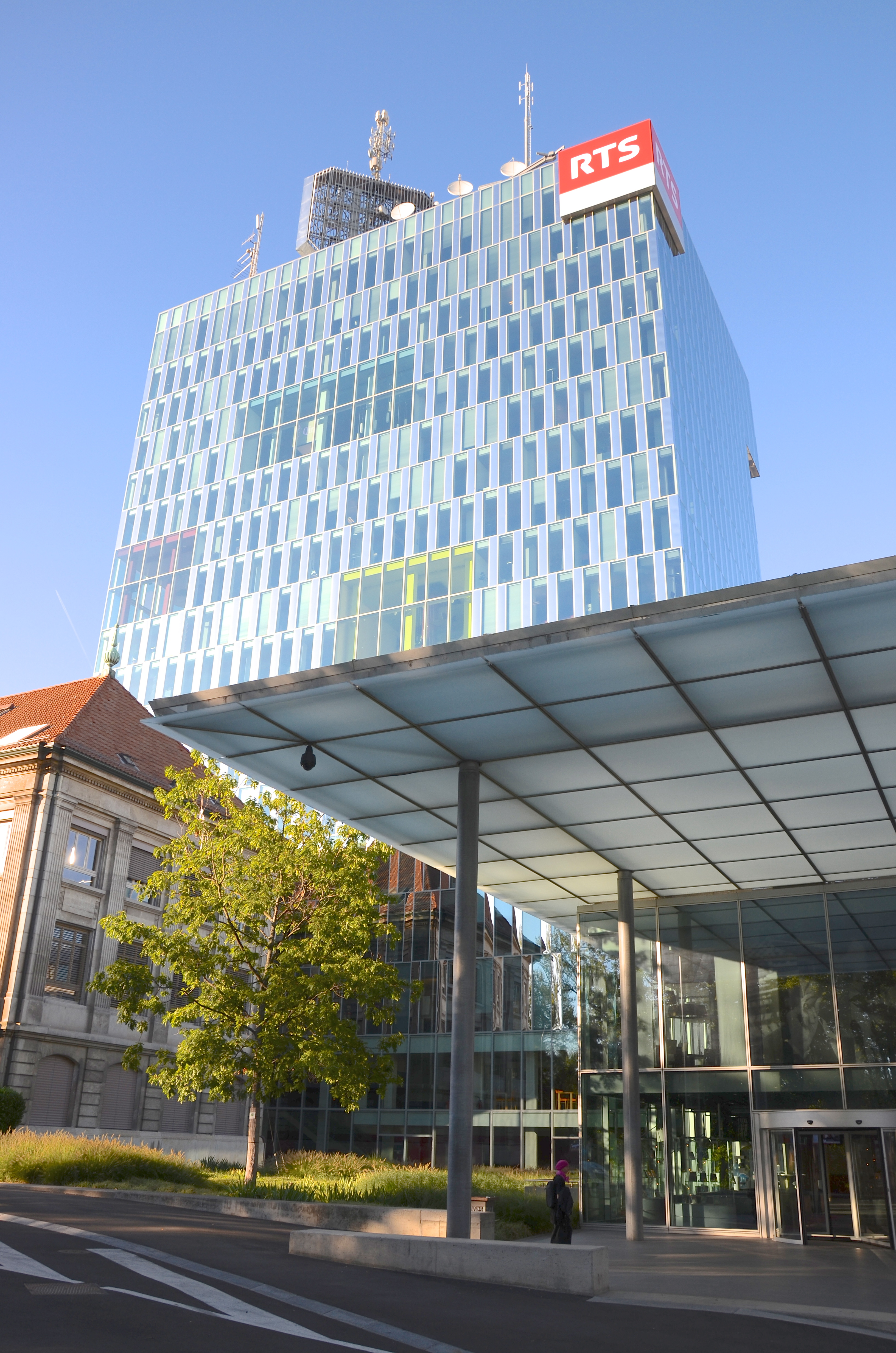 The tower of the Radio Télévision Suisse in Geneva.